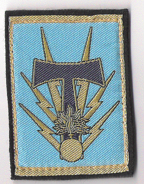 Shoulder patch diamond arm of the Signal Brigade.